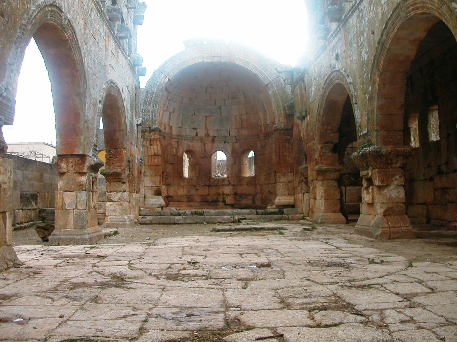 Kalb Lose 3